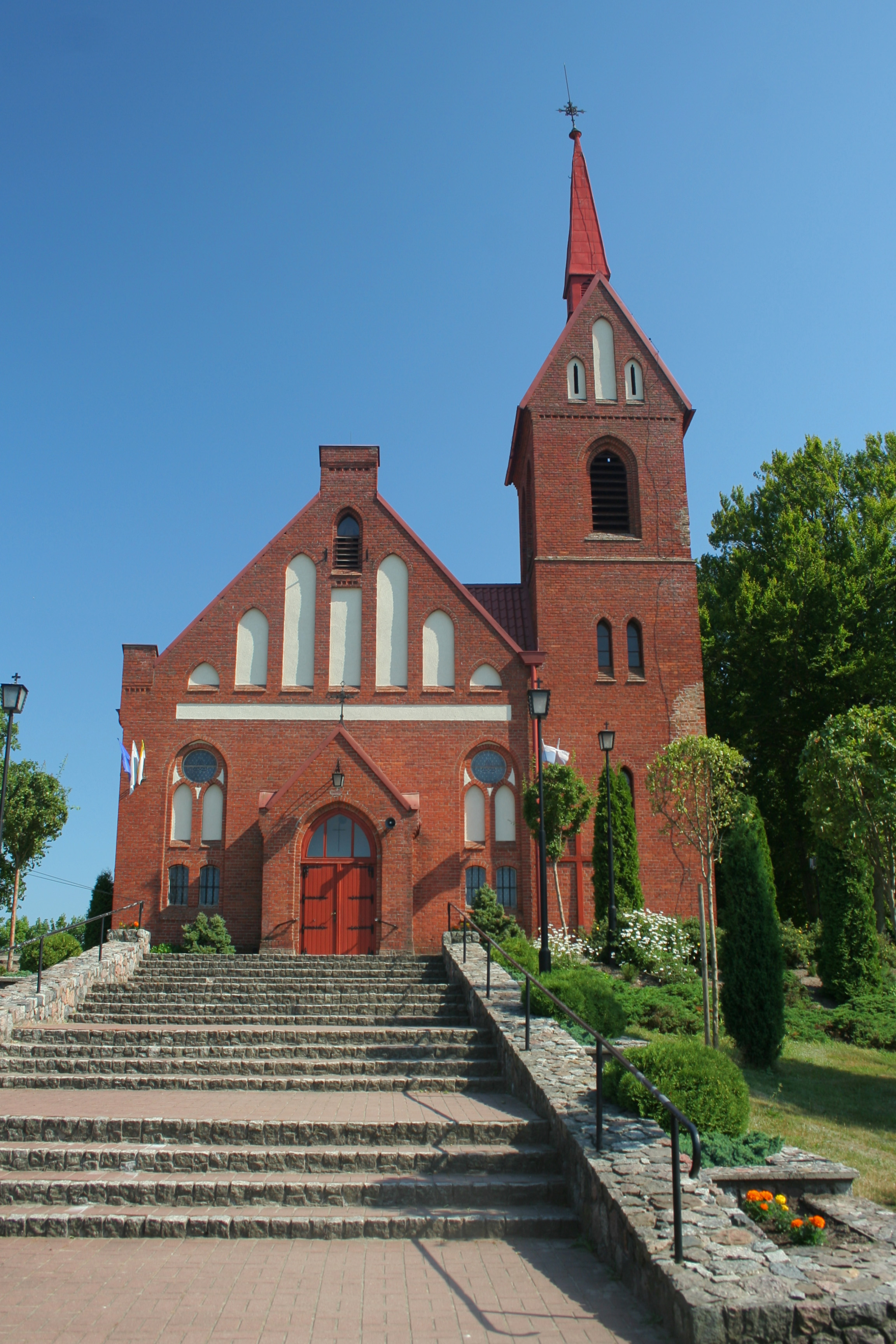 Church in Leśniewo.